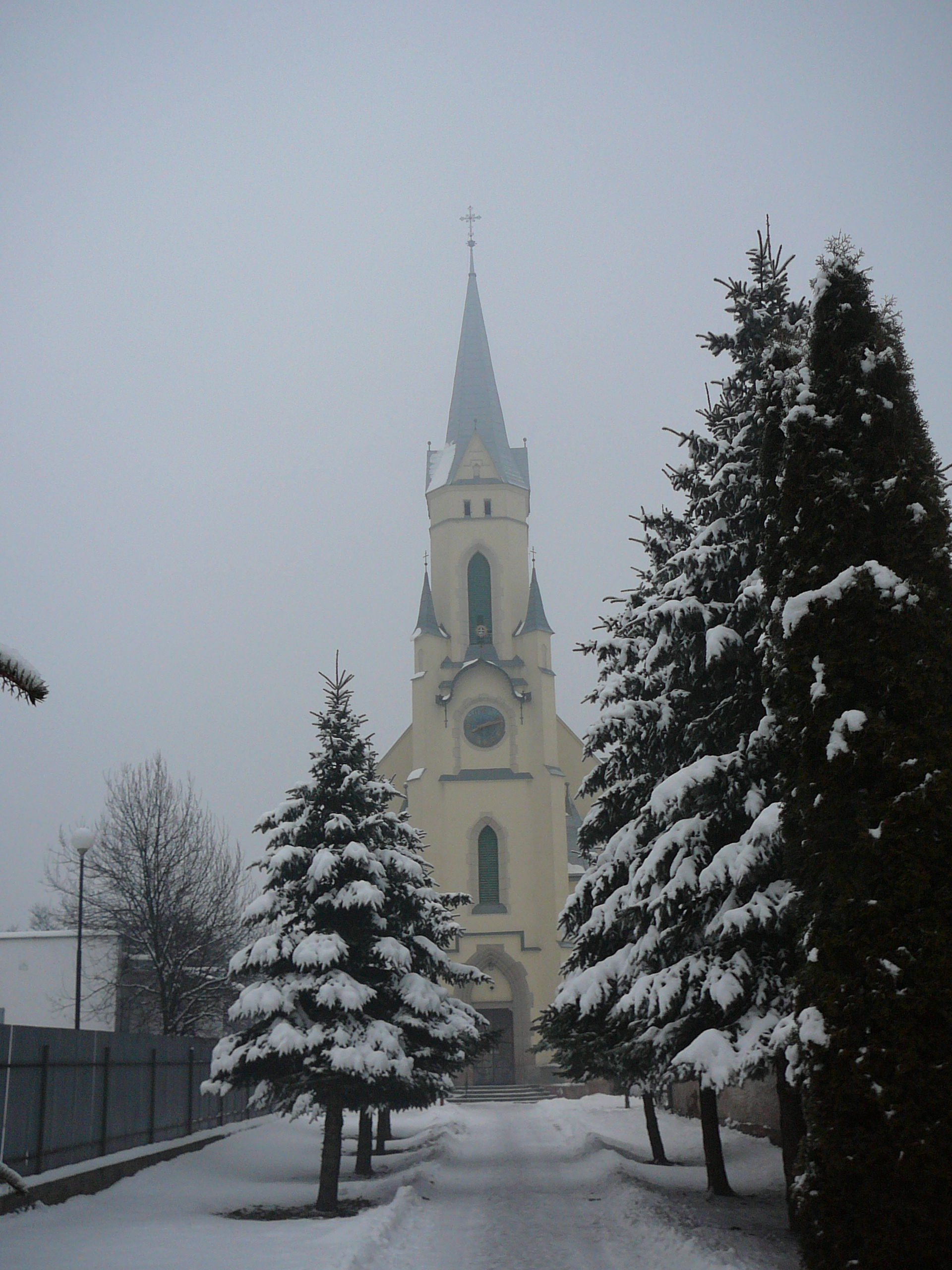 Church in Muráň.